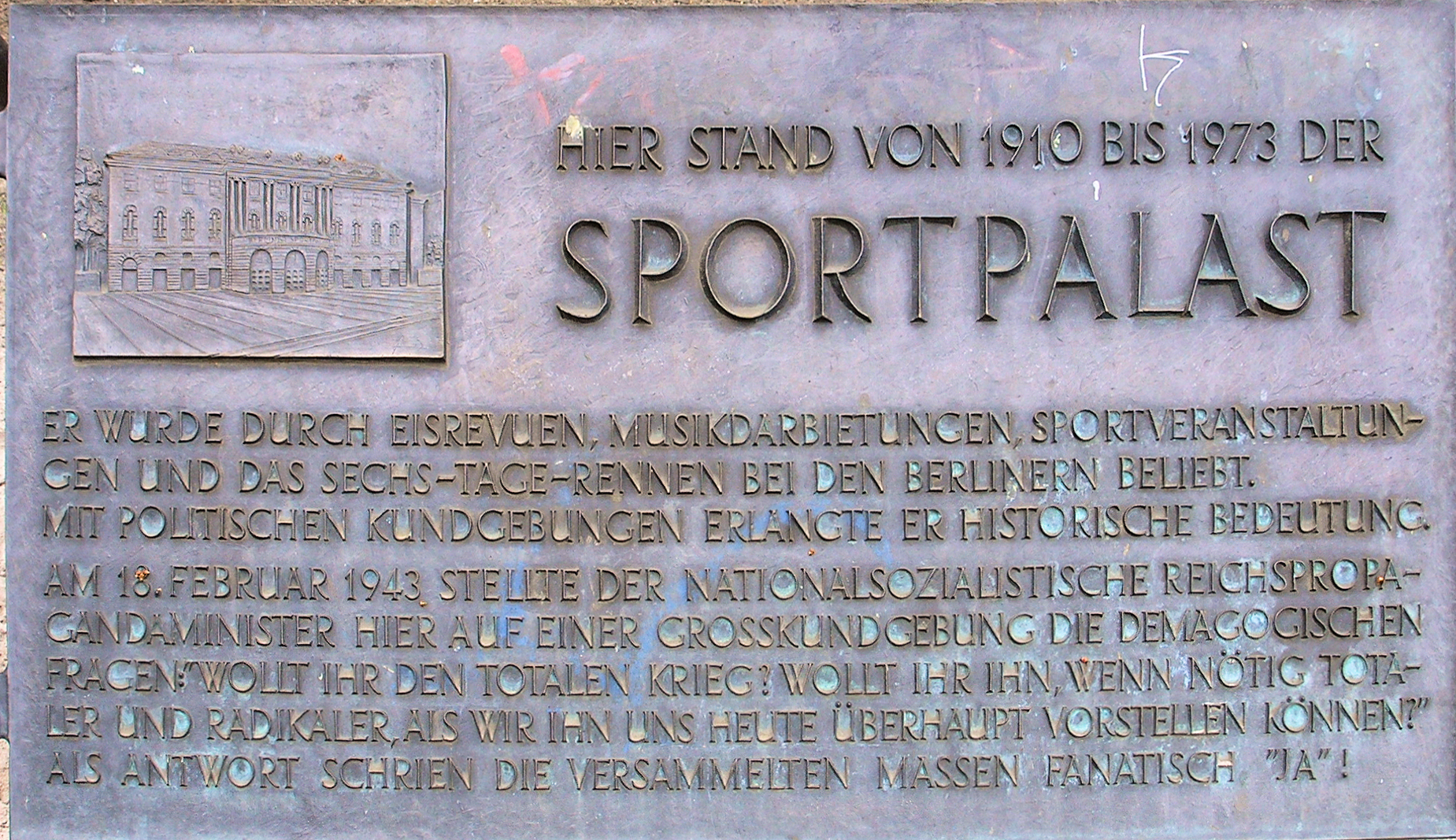 Memorial plaque, Sportpalast, Potsdamer Straße 172, Berlin-Schöneberg, Germany Koordinate:52°29′42″N 13°21′39″E / 52.495°N 13.36083°E